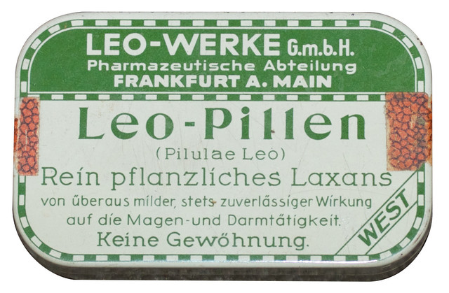 An original box of famous Leo-Pills.